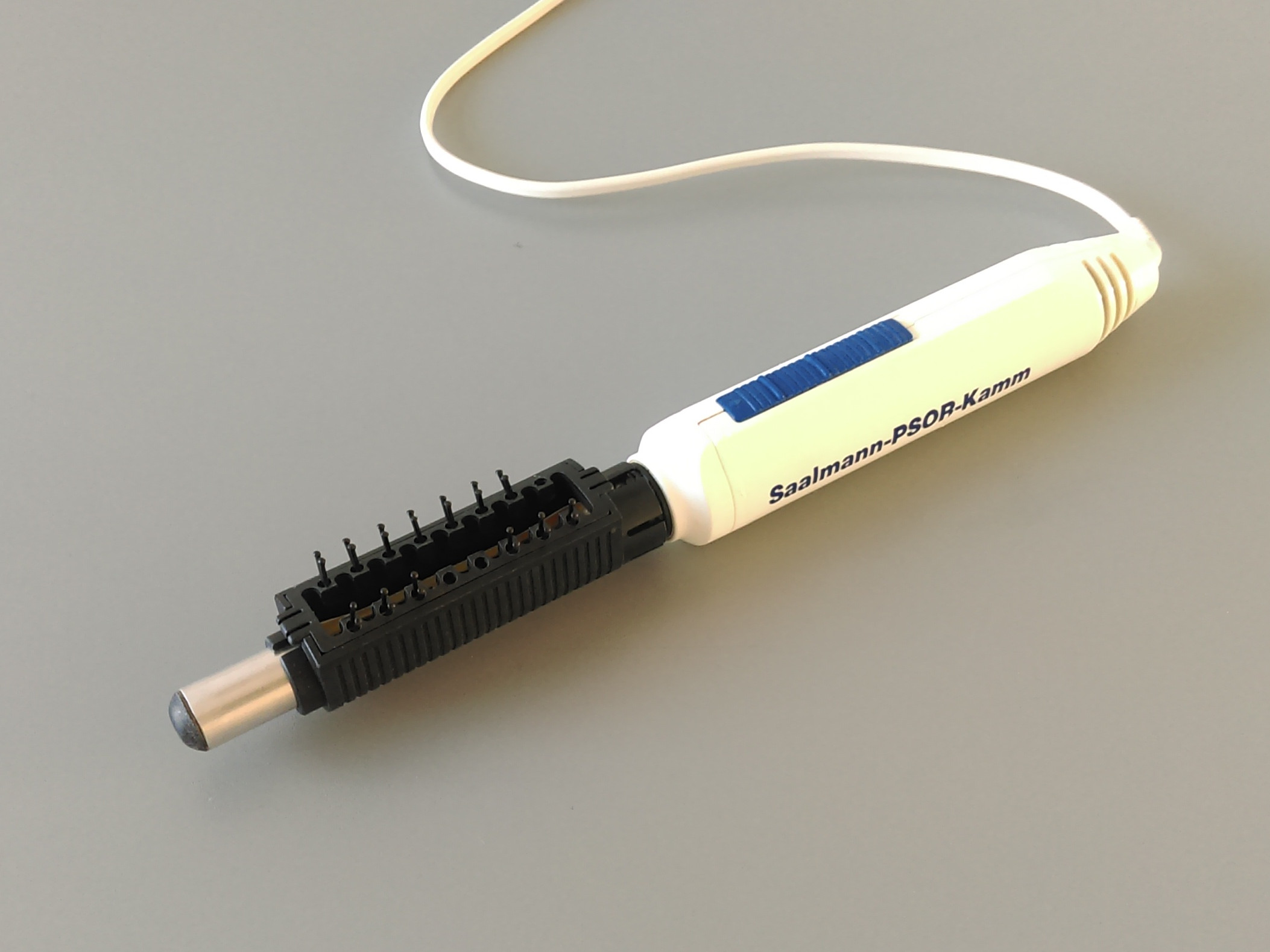 Saalmann Psor comb (also called light comb or UV comb) for phototherapy of psoriasis, neurodermatitis and vitiligo